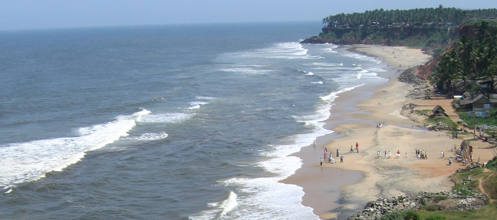 A view of Varkala beach from above the shore